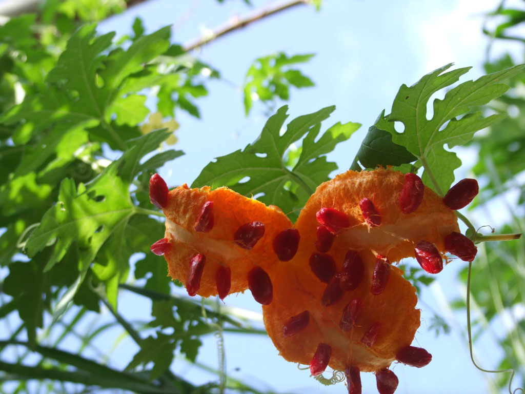 Momordica charantia, Bitter Melon